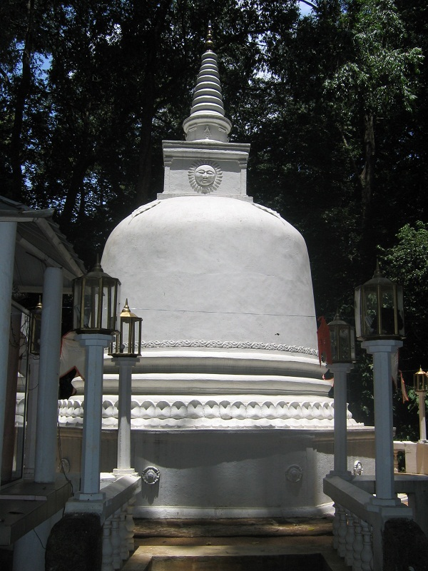 The stupa at Na Uyana Aranya, a Buddhist forest monastery in Sri Lanka. It is surrounded by Ceylon ironwood (Messua ferrea) trees, which has given the monastery its name.